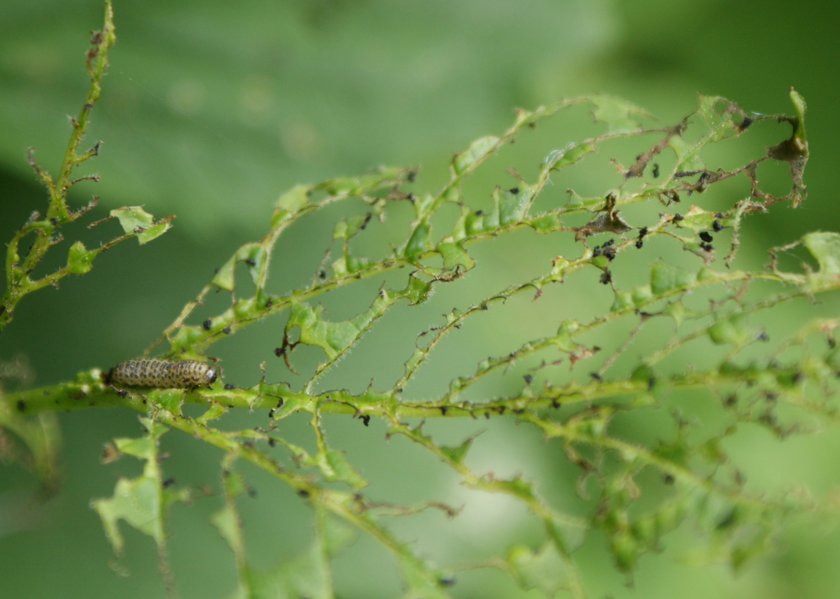 Galerucella viburni on Viburnum opulus leaf